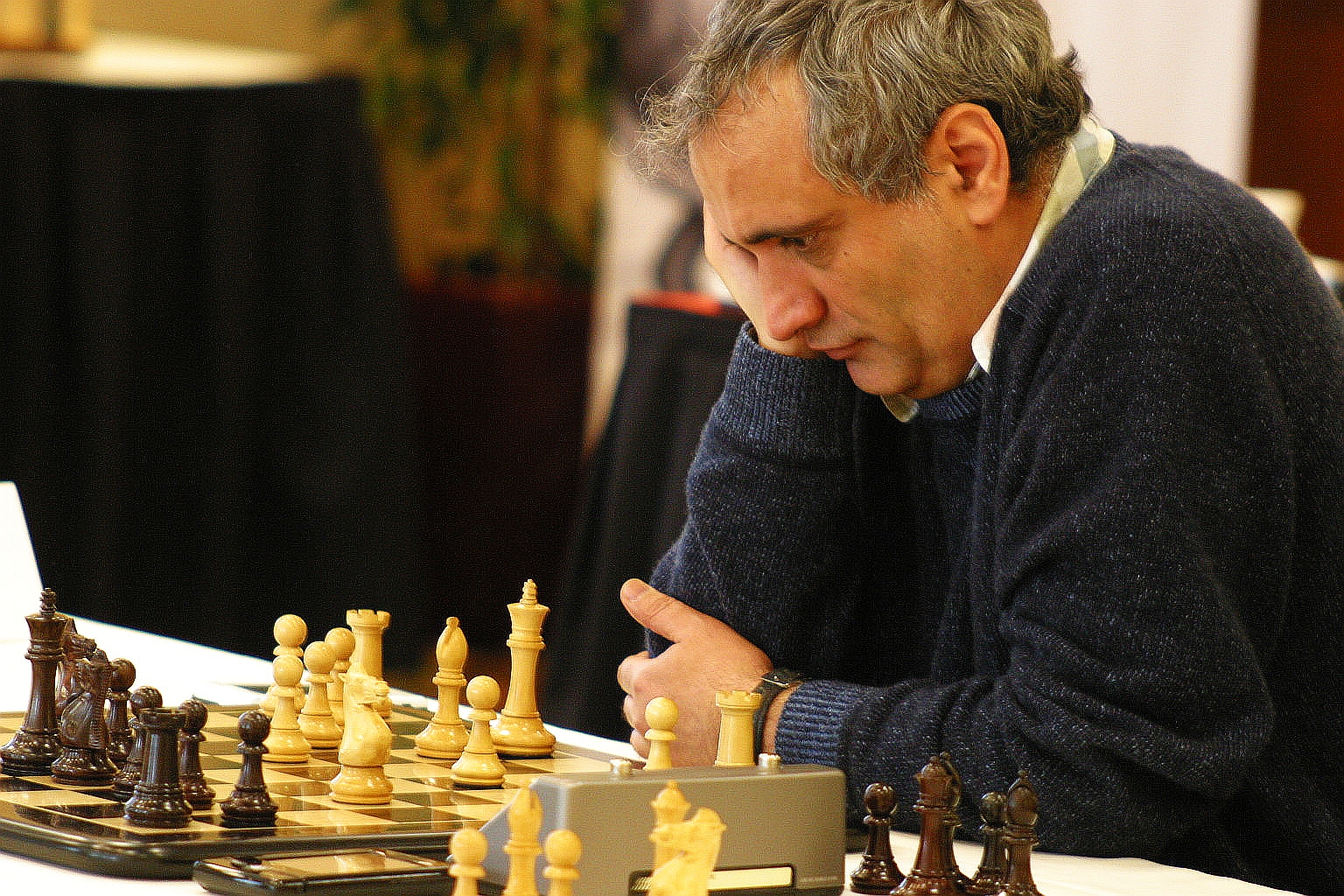 GM Dmitry Gurevich United States of America, 2006